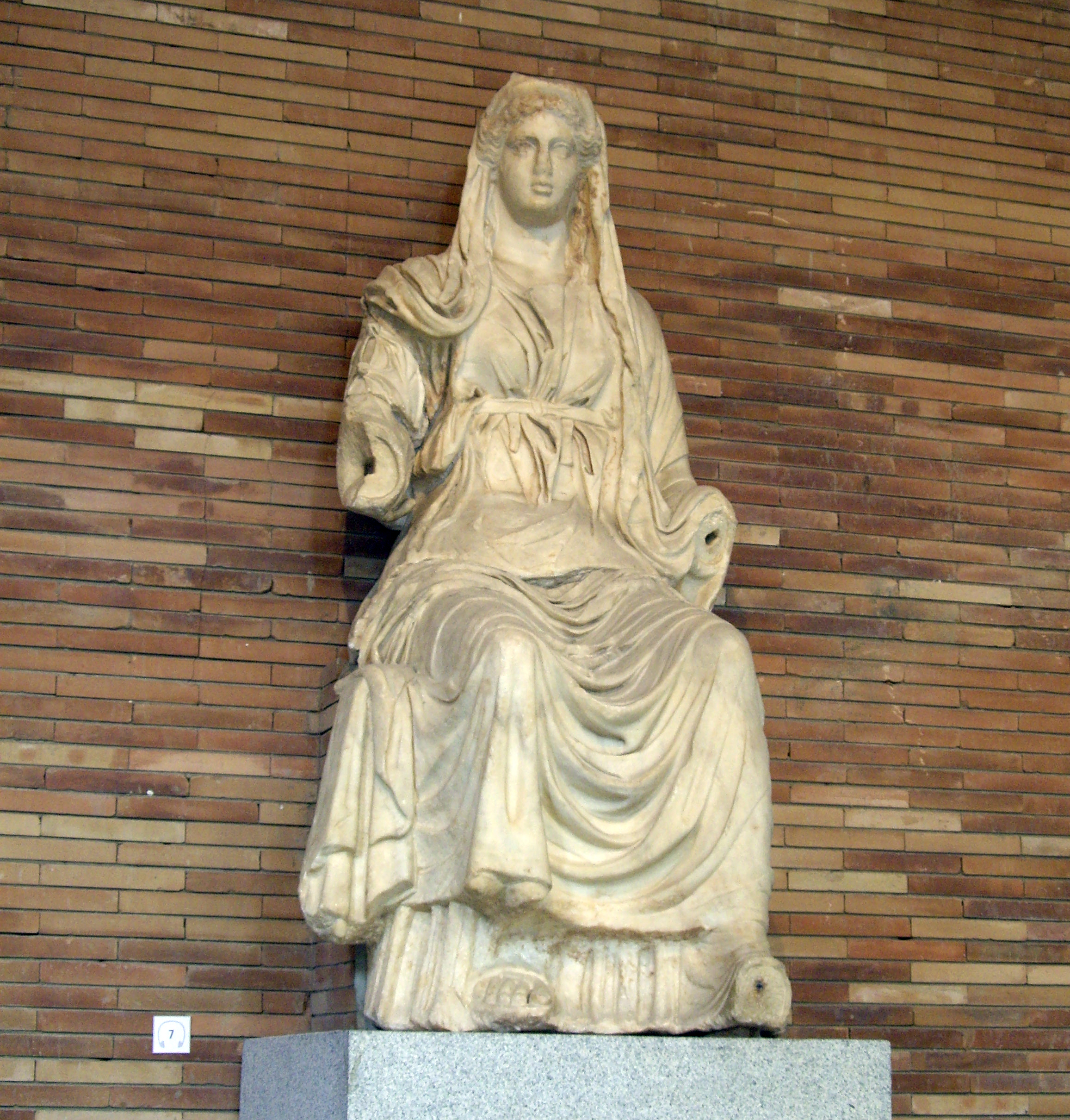 Goddess Ceres. Sitting statue sculpted in marble towards the 1st century CE. It is at the National Museum of Roman Art of Merida. There is a copy in front of the Roman Theatre of the same city.